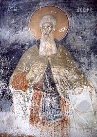 Fresco in Matejče Monastery, Macedonia